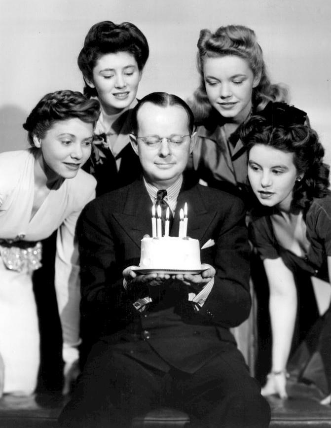 Photo celebrating the fifth anniversary of the radio program The Aldrich Family. Author Clifford Goldsmith, whose play. What A Life, was the basis for his creation of the radio show, is pictured at center, surrounded by four young actresses who played the role of Mary Aldrich, Henry's sister, on the program. From left-Mary Rolfe, Ann Lincoln, Mary Shipp and Charita Bauer. Bauer went on to the long-time role as Bertha "Bert" Miller on the radio and television versions of the daytime drama, The Guiding Light. Bauer was heard in the role from 1950 to 1956 on radio and played it on television from 1952 until her death in 1985.